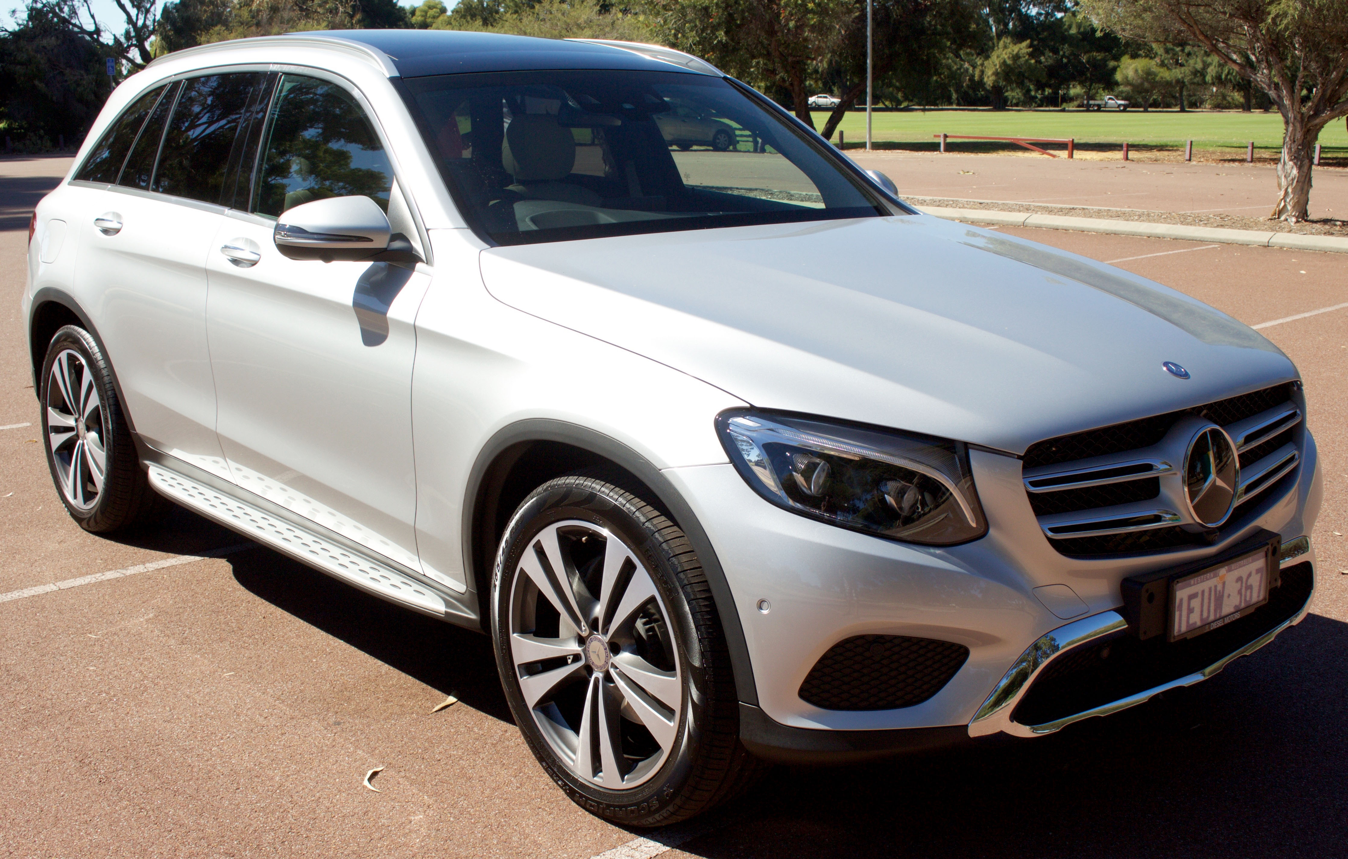 2015 Mercedes-Benz GLC 250 d (X 253) 4MATIC wagon. Photographed in Wilson, Western Australia, Australia.